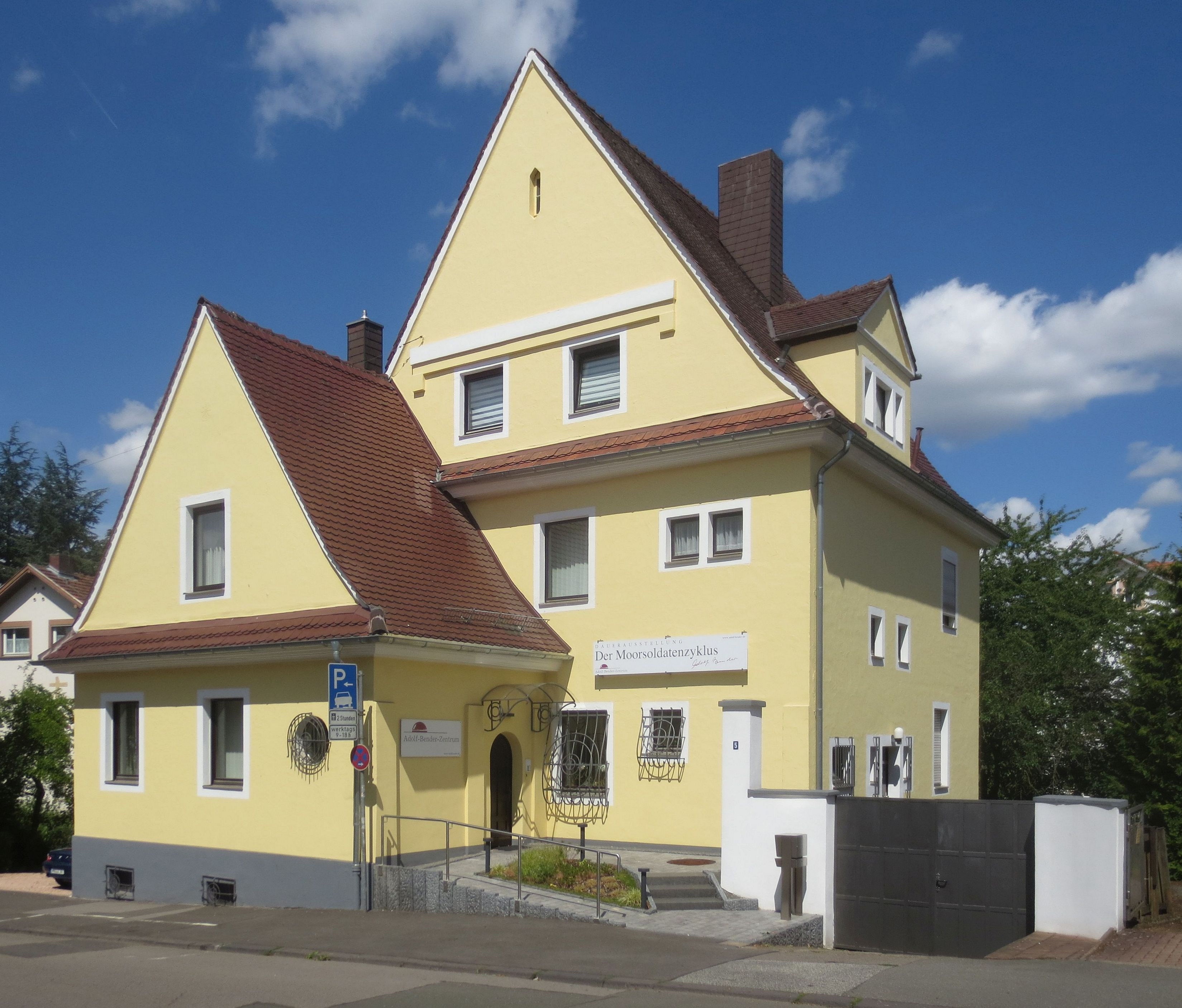 The Adolf Bender Zentrum at Gymnasialstraße No. 5 in St. Wendel/Saar.